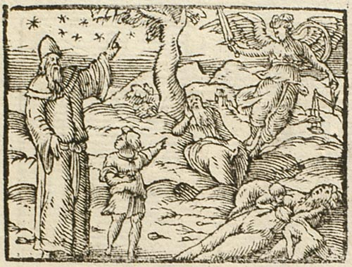 SUPREME IMPIETY. ATHEIST AND CHARLATAN "A child of the mob once asked an astronomer who the father was who engendered him in this world? The scholar pointed to the sky, and to an old man sitting, and said: “That one there is your body’s father, and that your soul’s.” To which the boy replied: “WHAT IS ABOVE US IS OF NO CONCERN TO US, and I’m ashamed to be the child of such an aged man!” O WHAT SUPREME impiety, not to want to recognize your father, and not to think God is your maker!"